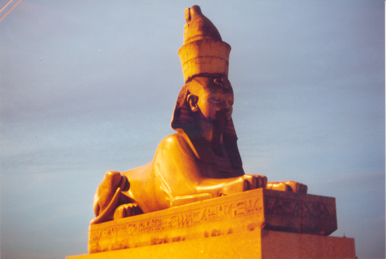 Saint Petersburg,Russia-"white Nights"